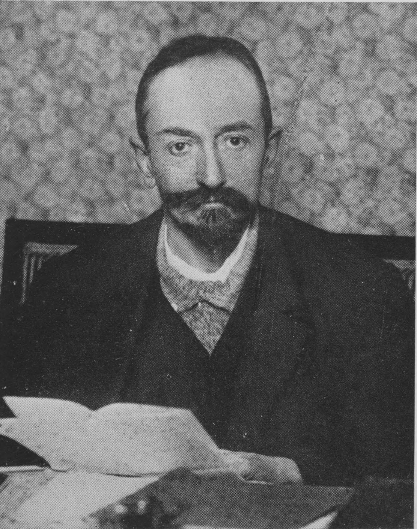 Bolshevik People's Commissar for Foreign Affairs, Georgy Chicherin.